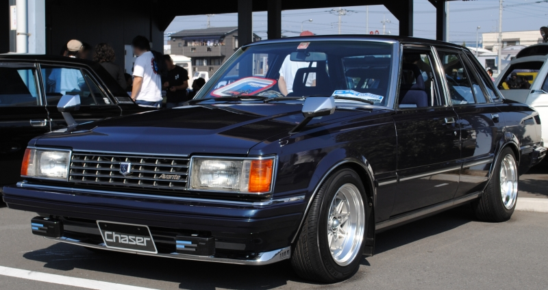 Toyota Chaser.